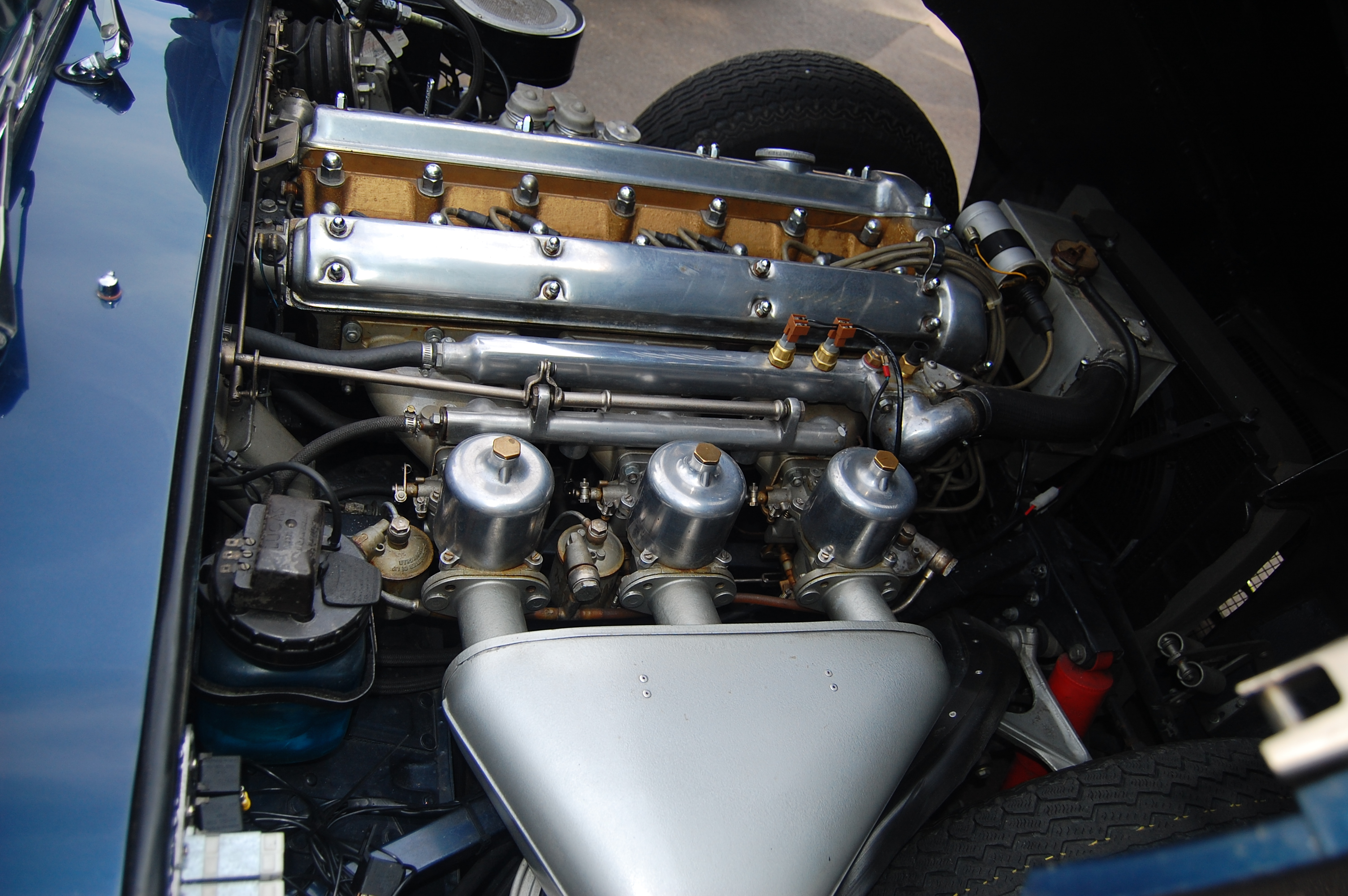 Engine of a Jaguar E-Type